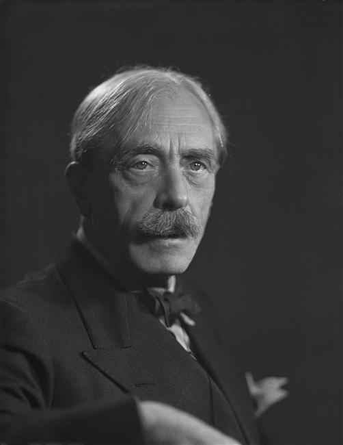 Studio photo